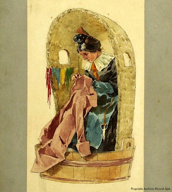 La bohème Act II costume design for "la rappezzatrice" (the clothes mender) for the world premiere performance, Teatro Regio di Torino, 1 February 1893.